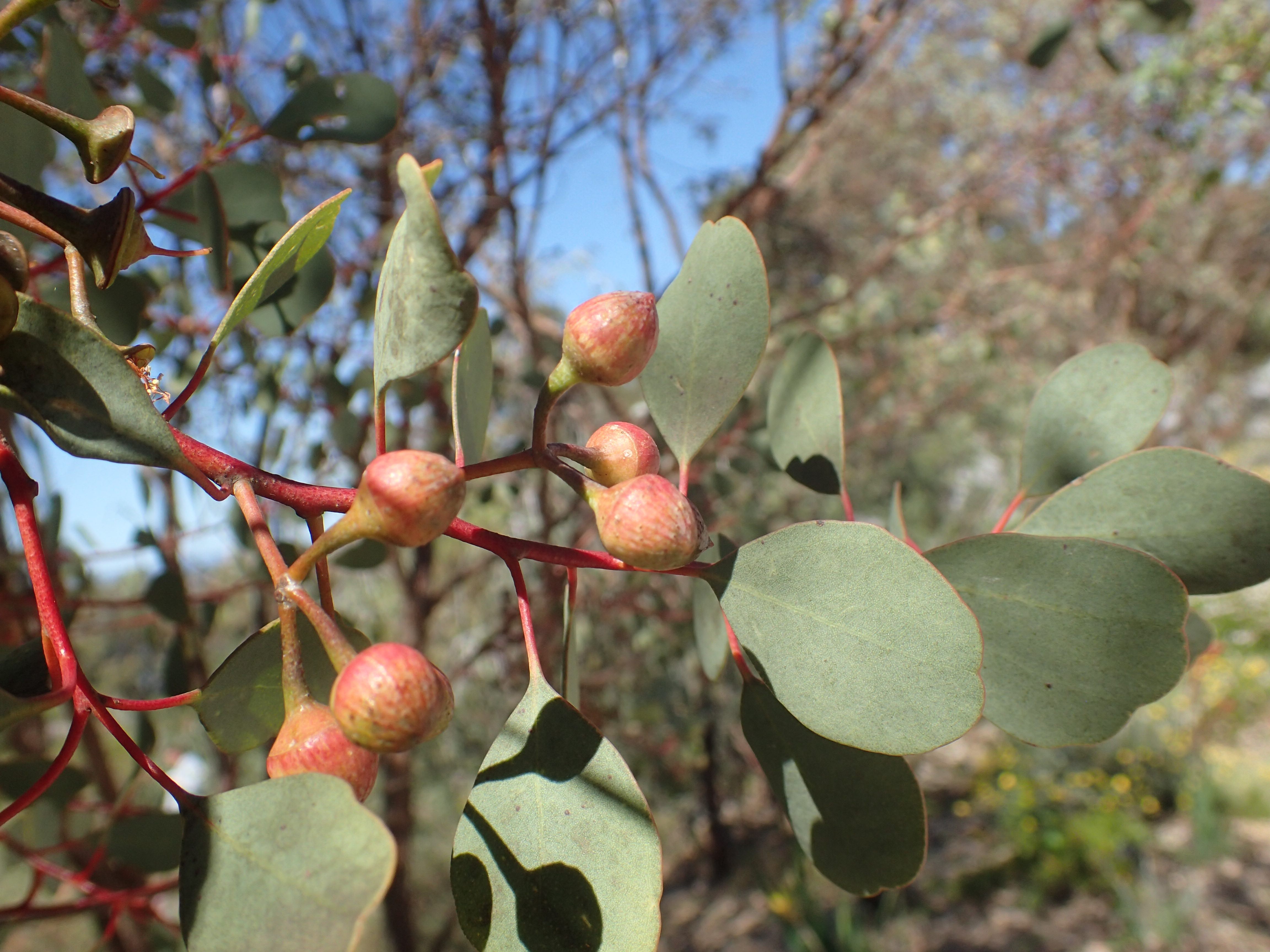 Flower buds of Eucalyptus websteriana in Kings Park, Perth